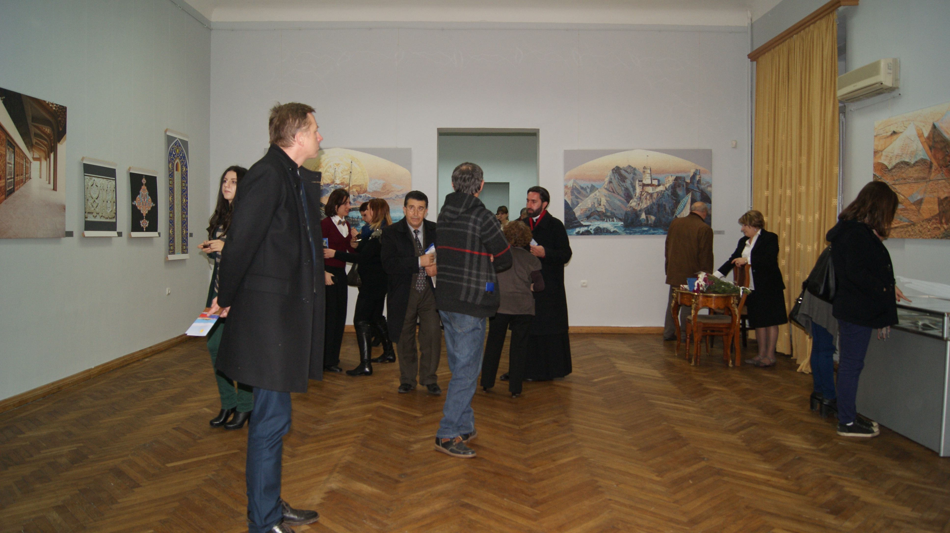 Edman Ayvazyan exhibition at National Gallery of Armenia